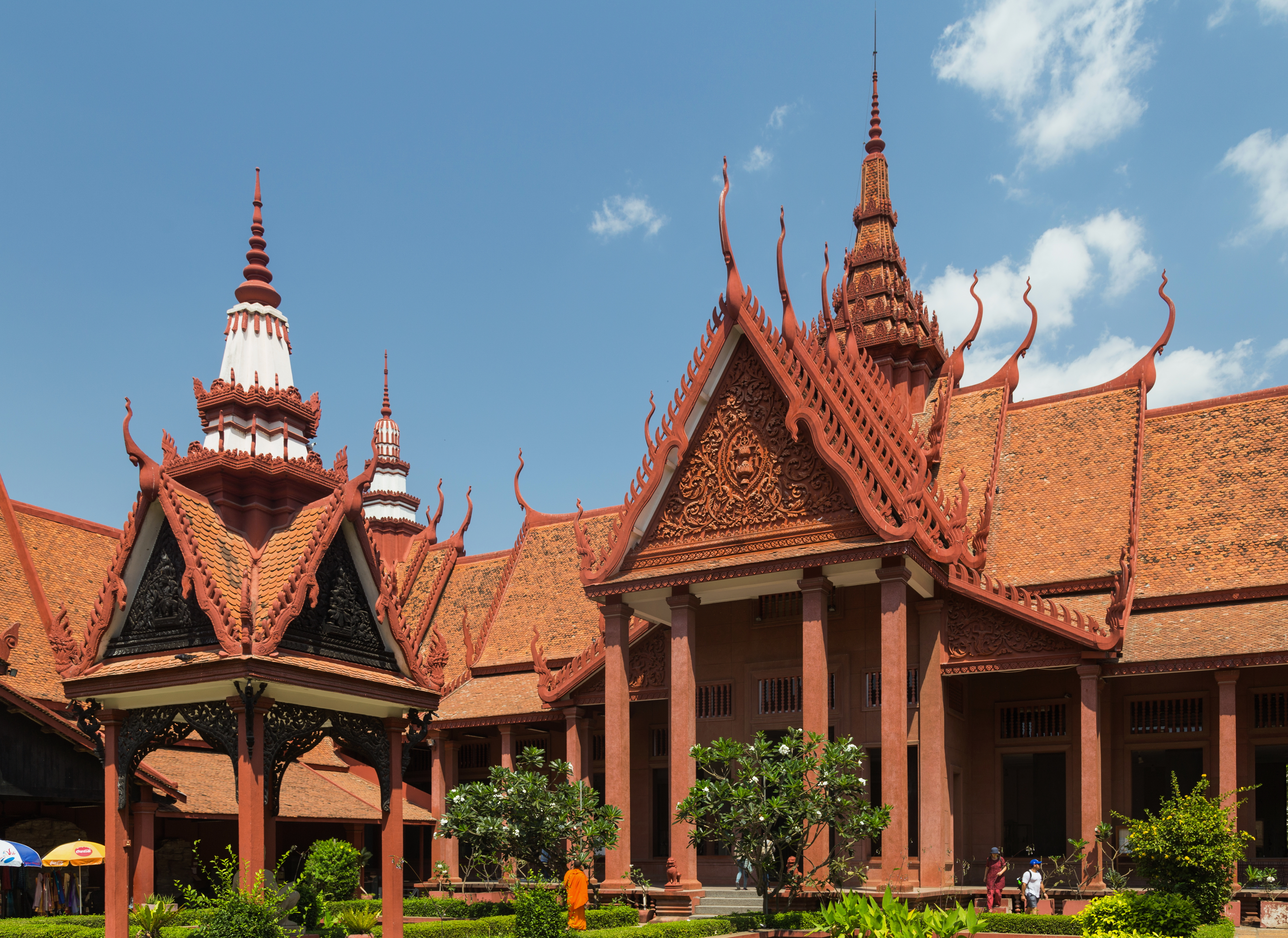 National Museum of Cambodia. Phnom Penh, Cambodia.